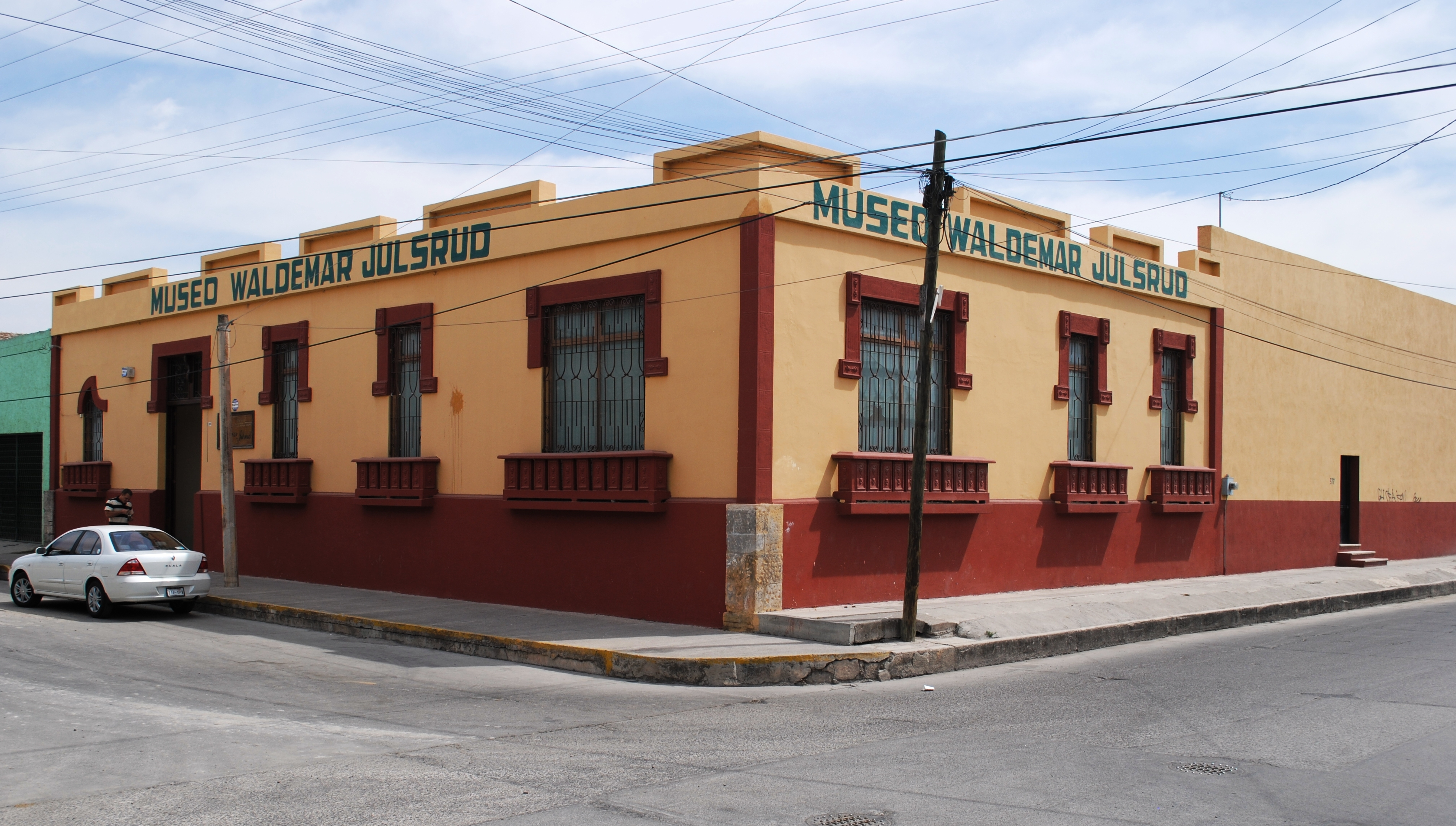 Muzeo_Julsrud